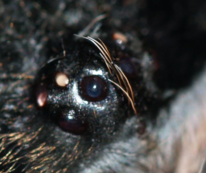 Brachypelma albopilosum eye region. ca. 9 year old female specimen from Cologne Zoo, Germany. Right bottom corner of the picture is front.